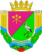 Coat of Arms of Kuryukivskij raion